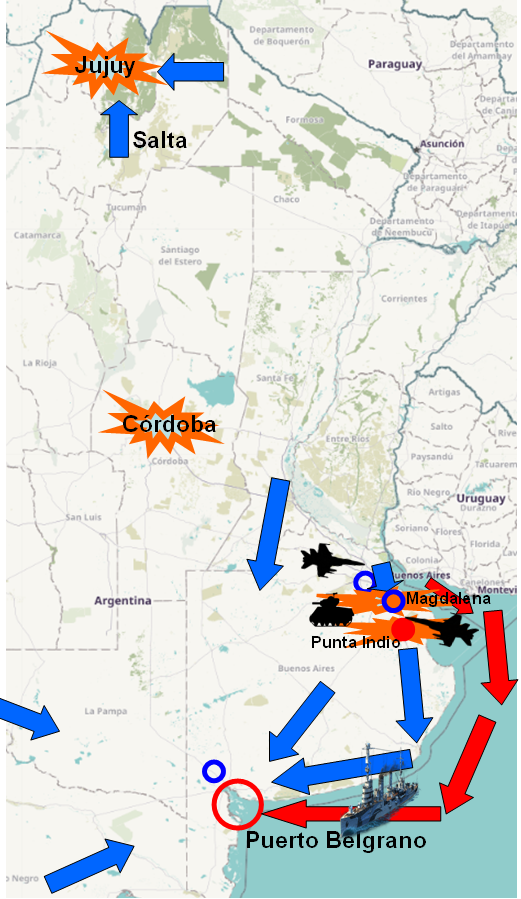 Argentina. April 1963. Battle between Blues and Reds (Azules y Colorados). Map. Sources: Basic map from OpenStreet; airplane and tank from Kissclipart (tank) and Kissclipart (aircraft), Kissclipart (ship).